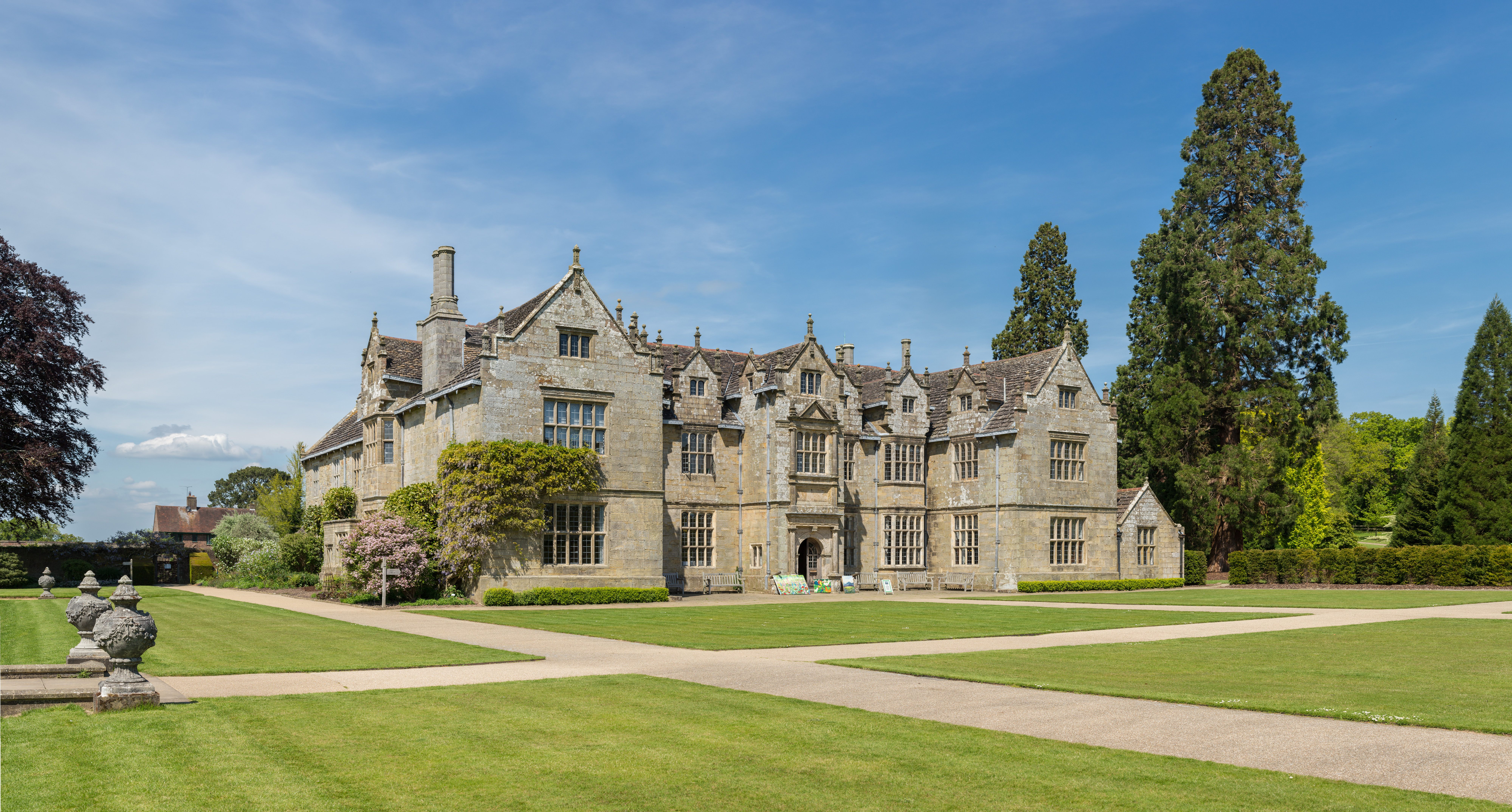 Wakehurst Place Mansion viewed from the south west, in West Sussex, England.